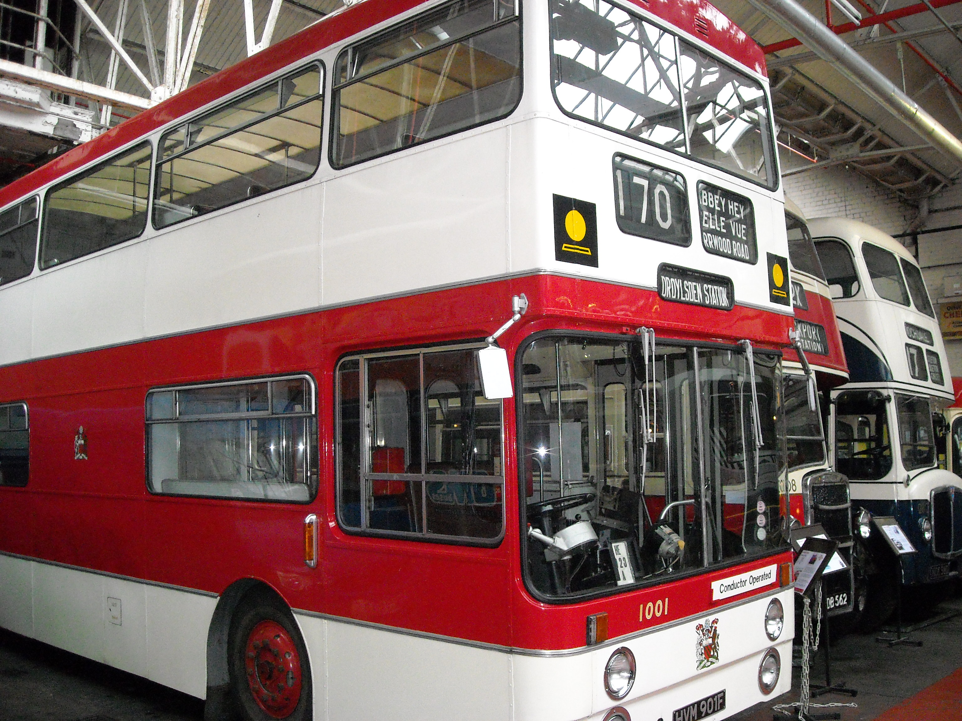 Nice to see this in the good old Manchester Corporation livery ;)